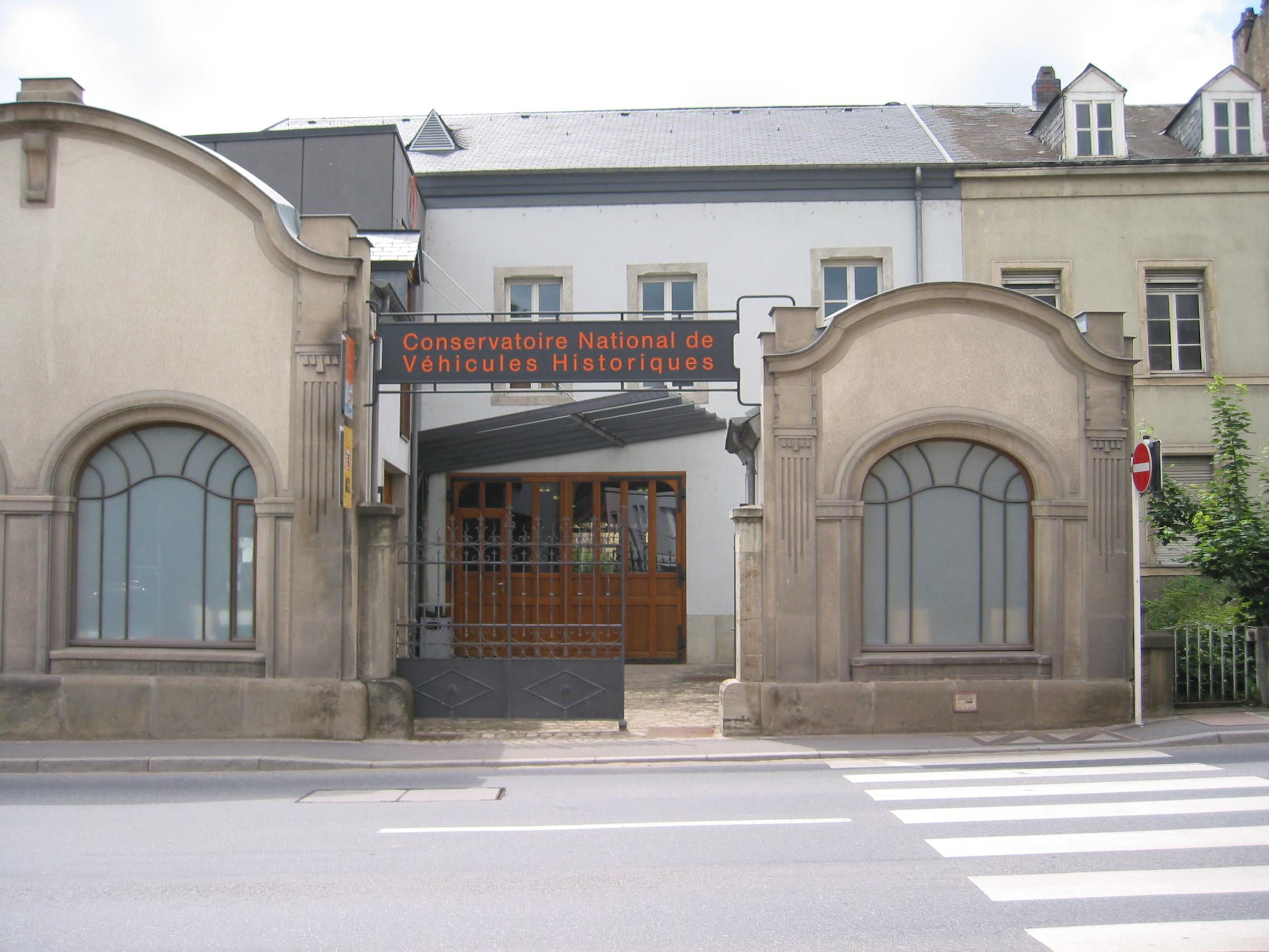 Building of the Car Museum in Diekirch, Luxemburg